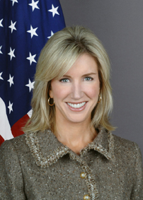 Susan McCaw, U.S. Ambassador to Austria. Source: U.S. Austrian Embassy: Biography of Susan McCaw.